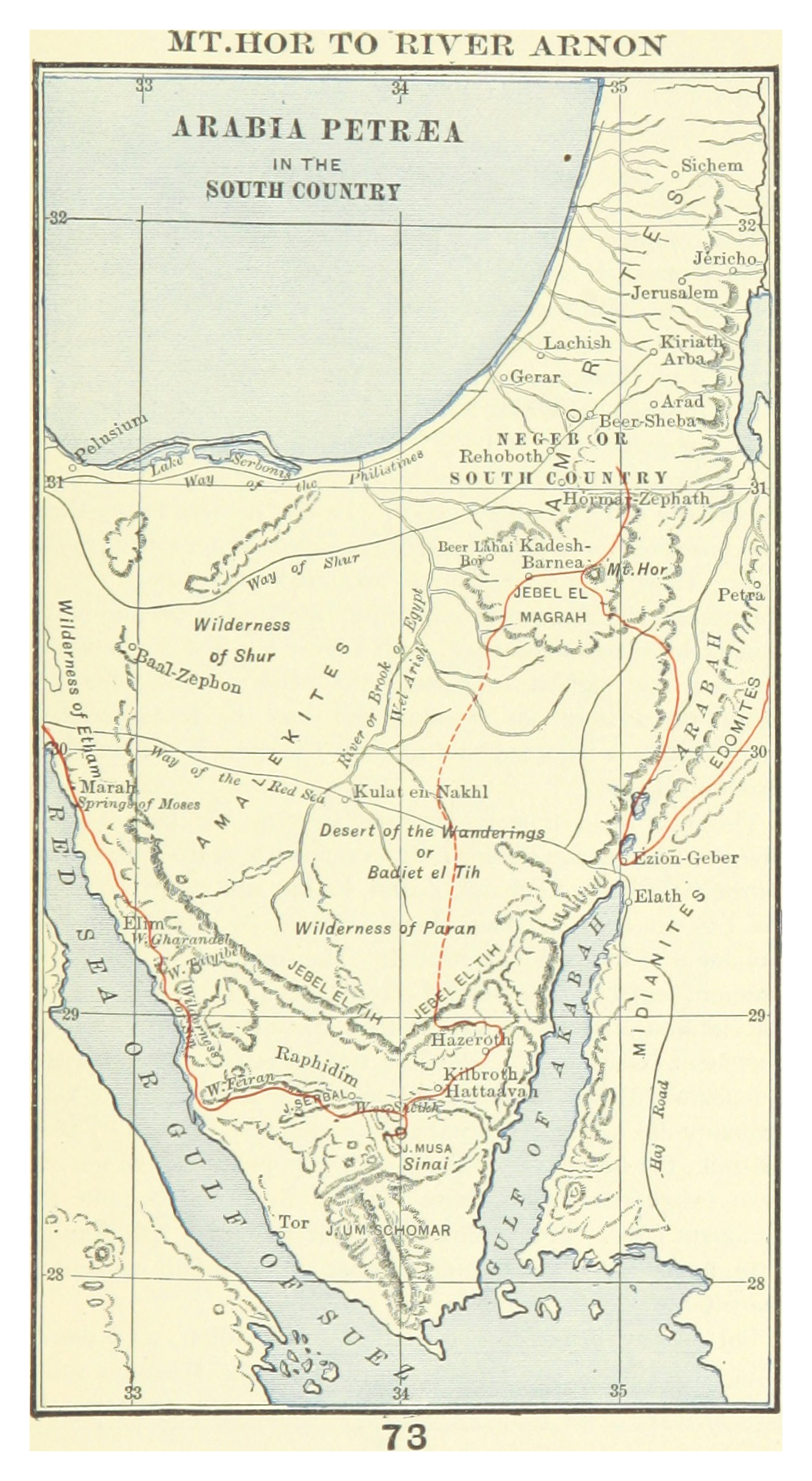 Note that Mount Hor is located where the red line splits in two.